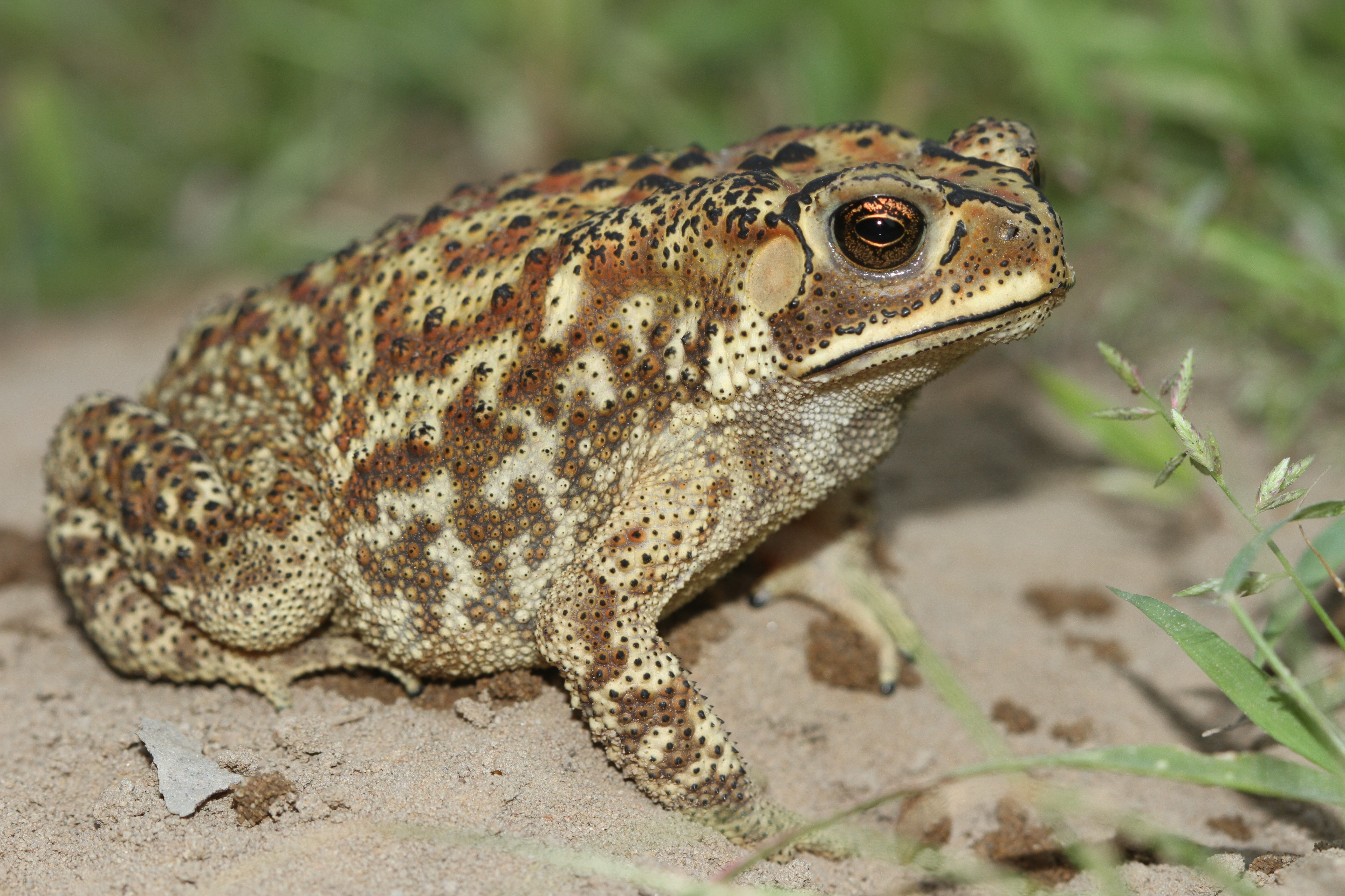 common toad across india